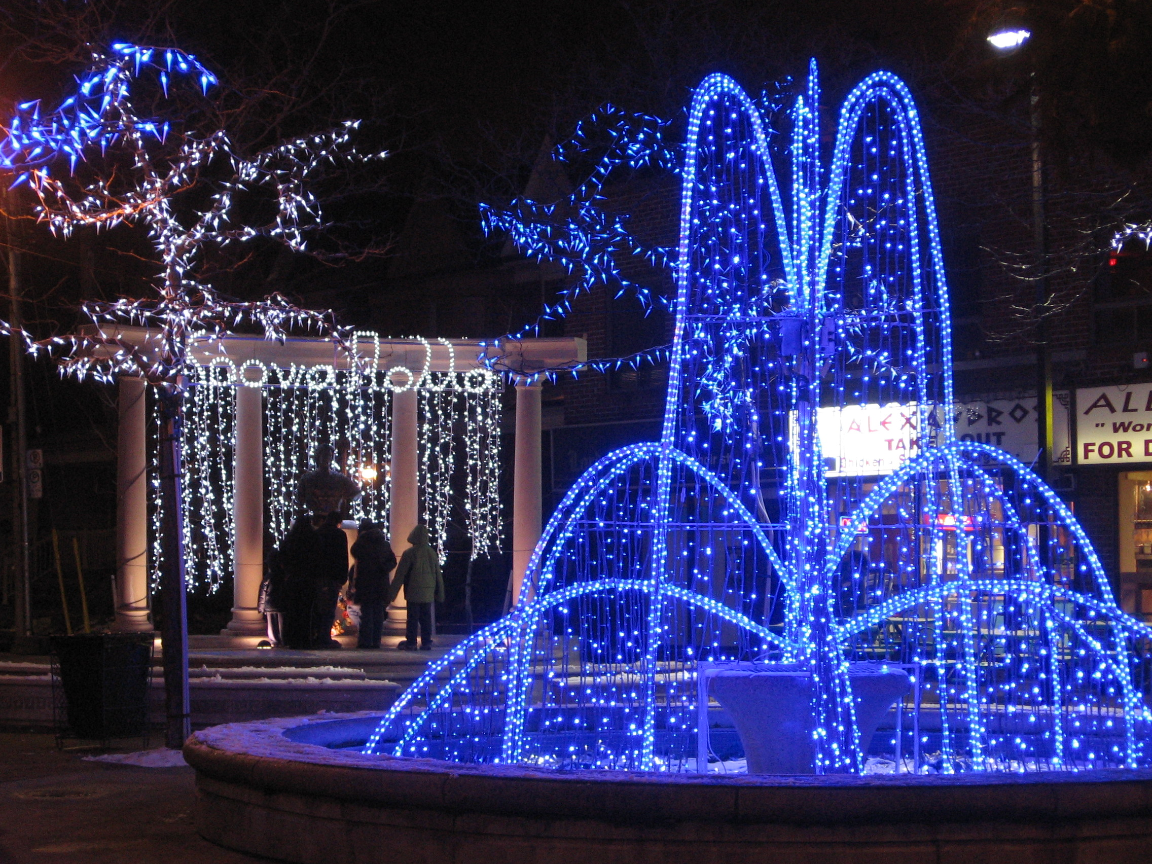 Greektown at Christmas. Northeast corner of Danforth & Logan.